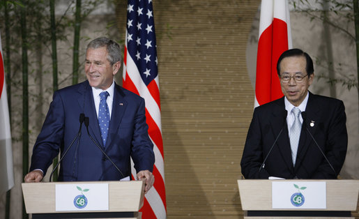 President George W. Bush and Prime Minister Yasuo Fukuda listen to questions at the Windsor Hotel Toya Resort and Spa in Tōyako Town, Abuta District, Hokkaidō on July 6, 2008.